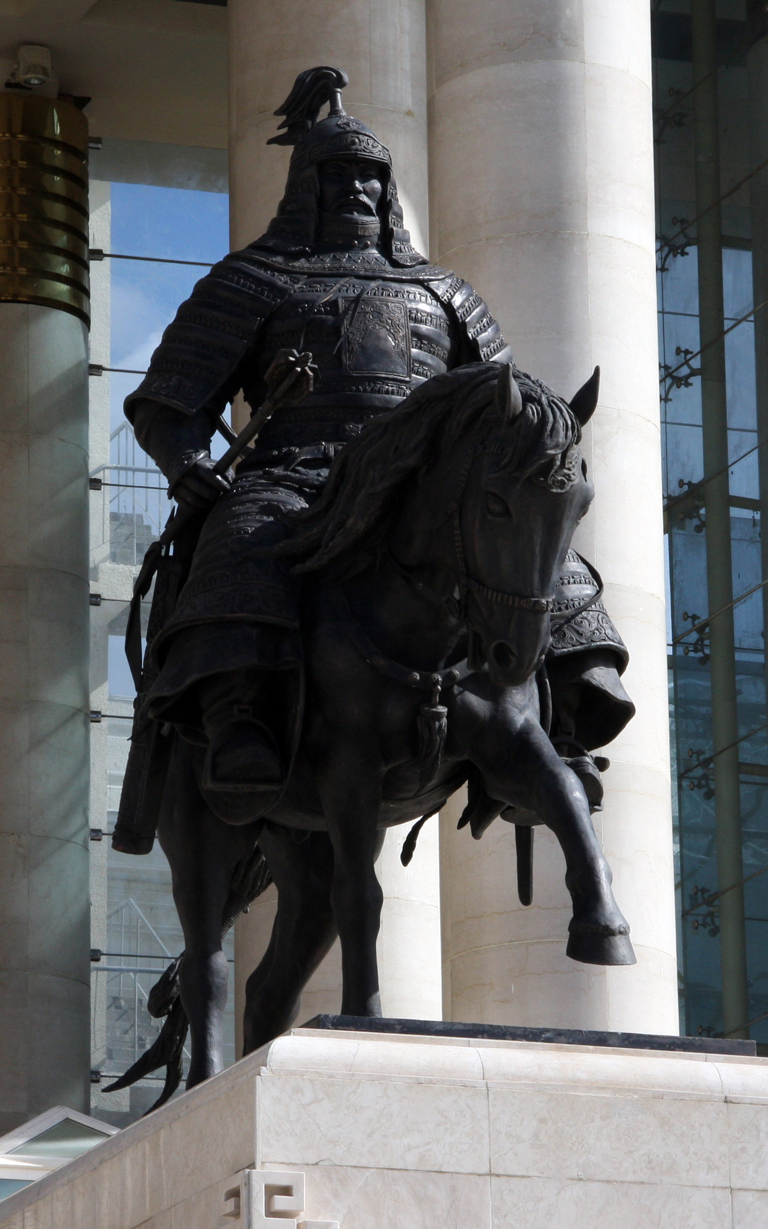 Statue of Muqali (Mukhulai) in Sukhbaatar Square, Ulaanbaatar